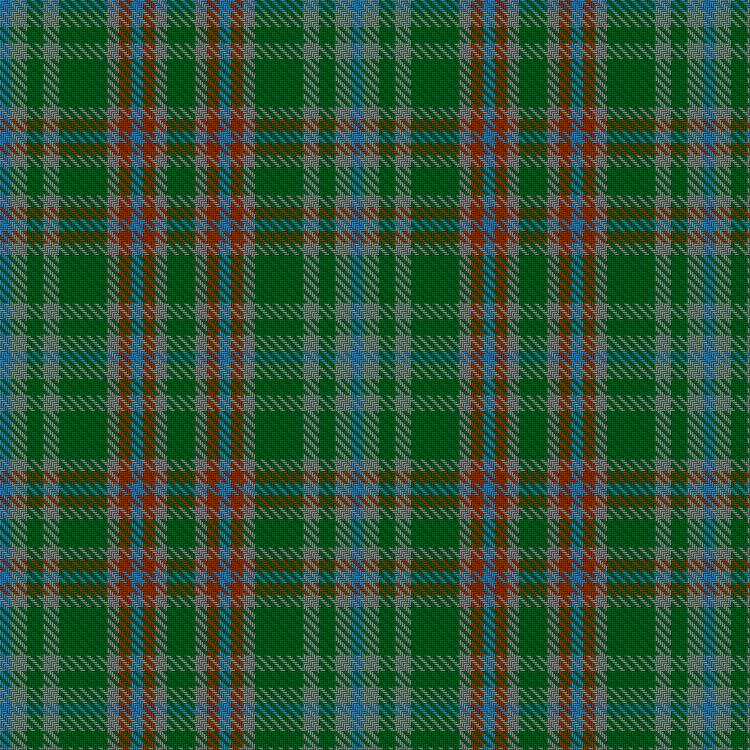 Designed by Michael T Ralstin of Chesterfield, Virginia to commemorate the 60th birthday of Michael R. Ralstin of Scioto County, Ohio and to provide a tartan design for the name Ralston and all its spelling variations. Colours close to sample in Scottish Tartans Authority's collection.